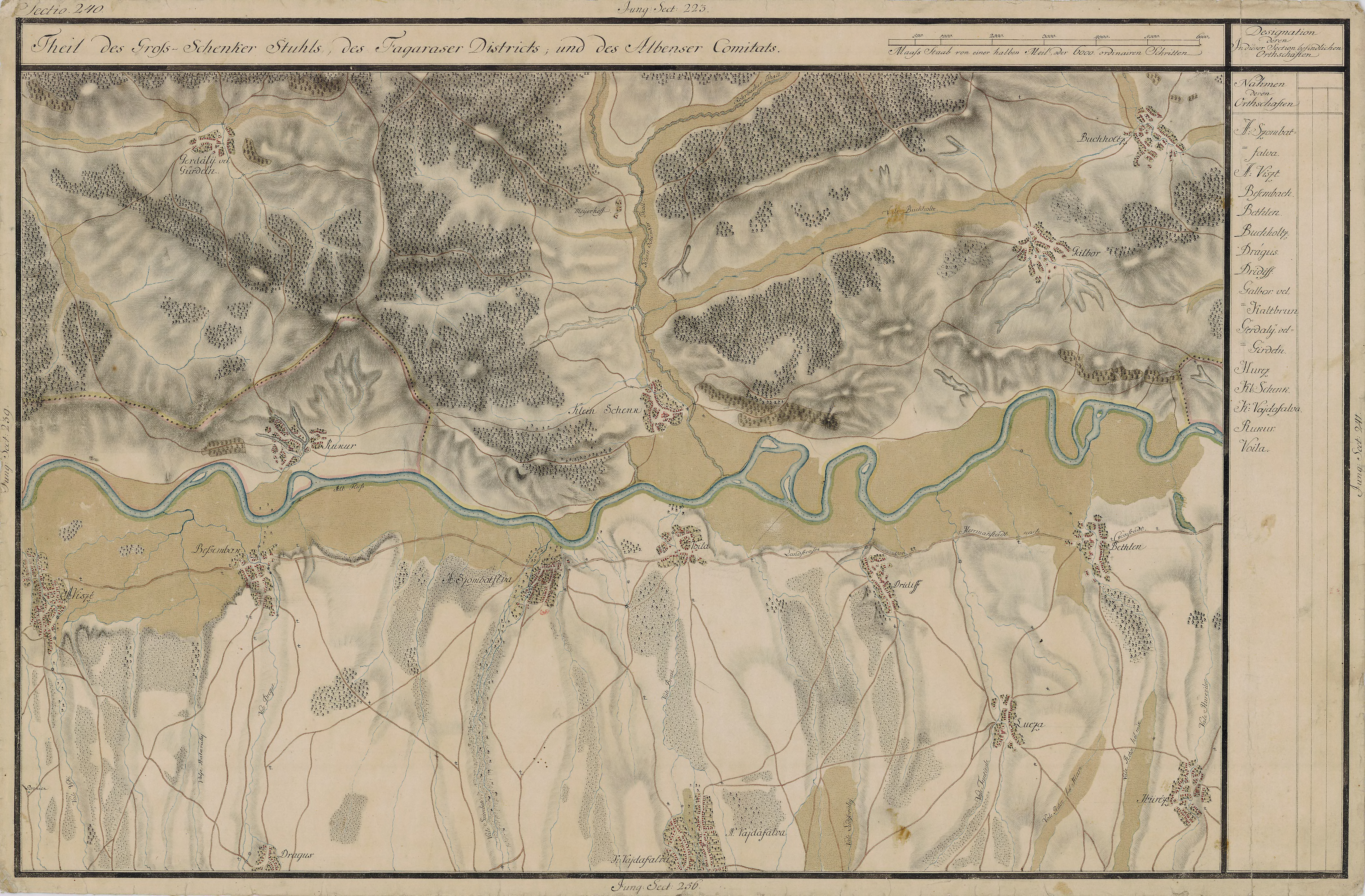 Grand Duchy of Transylvania, 1769-1773. Josephinische Landaufnahme pg.240